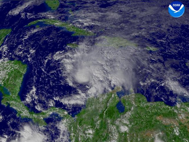 A 2100Z report said that Tropical Storm Odette was located west of Santo Domingo. This system moved northeast near 10 MPH and had winds near 40 MPH, with higher gusts.